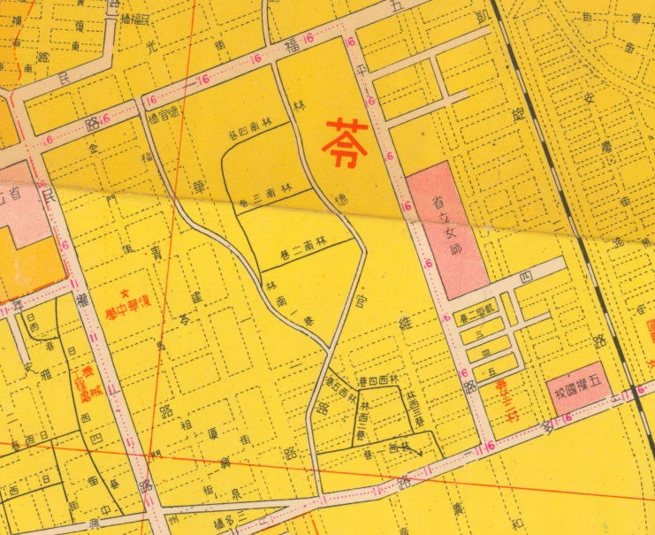 Lim-tek-koan in a 1957 map